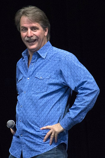 Comedian Jeff Foxworthy in performance at the Resch Center in Green Bay